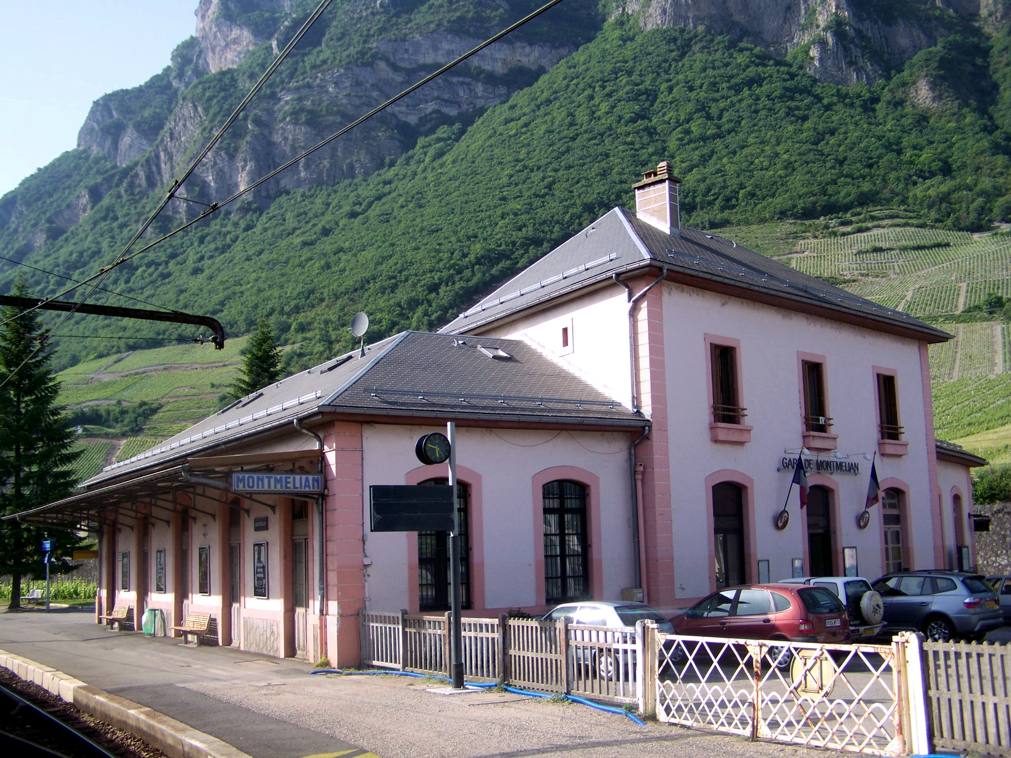 Front, tracks and platforms of the city of Montmélian station, in Savoie, France.